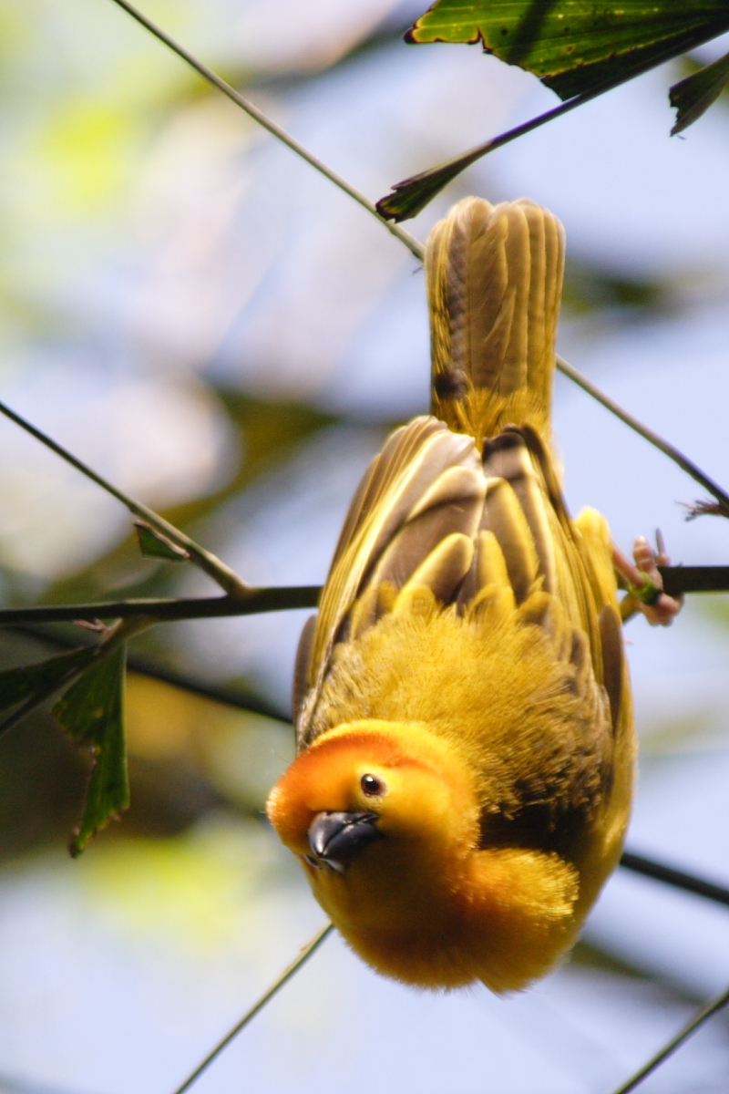 Taveta Golden-weaver (Ploceus castaneiceps), Disney World's Animal Kingdom, Orlando, Florida.